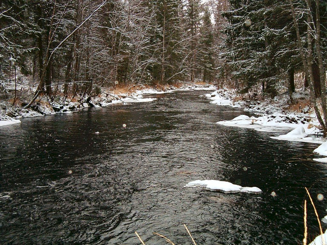 Sivakka river in Valtimo, Finland